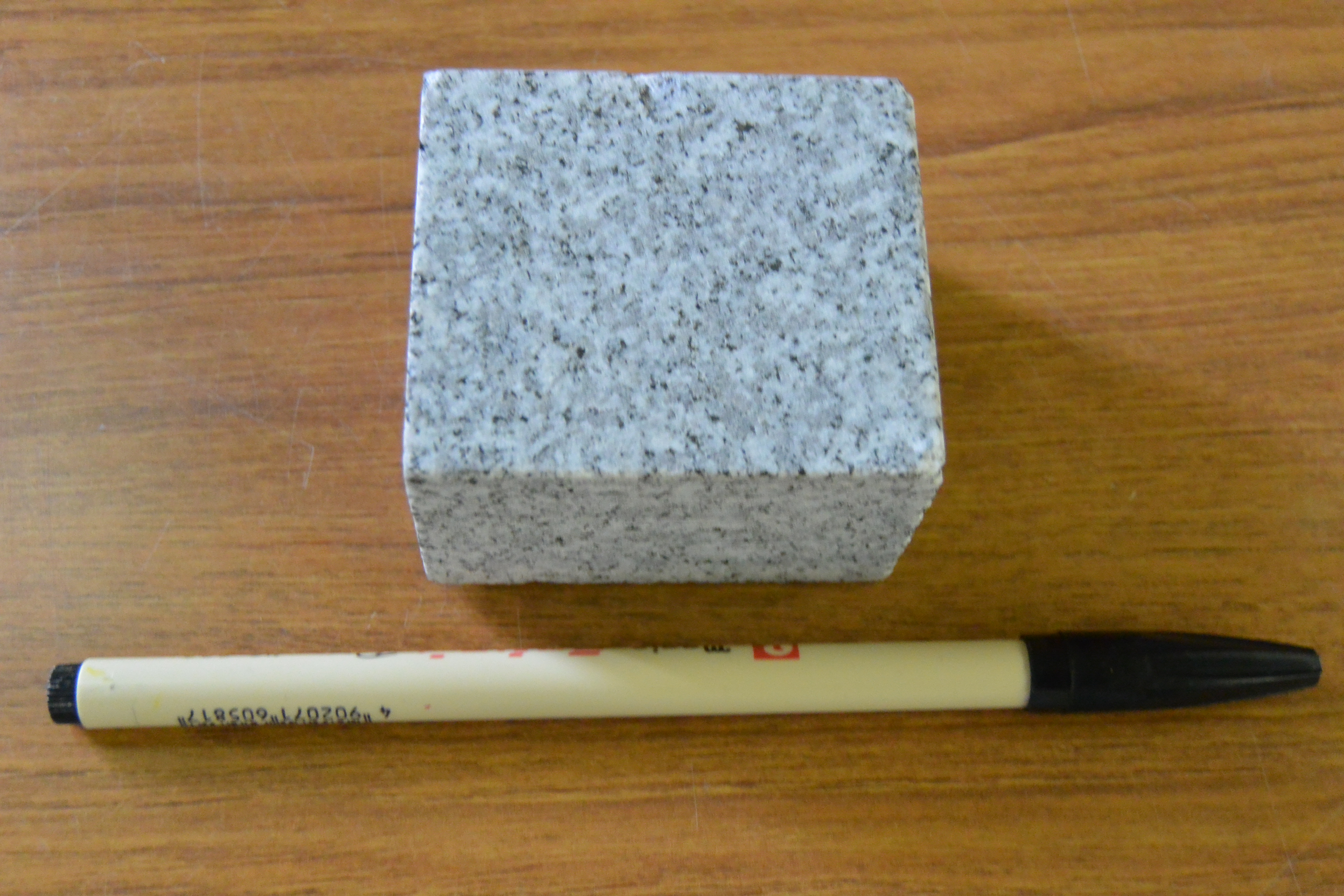 kitagi stone, good grain stone for monument